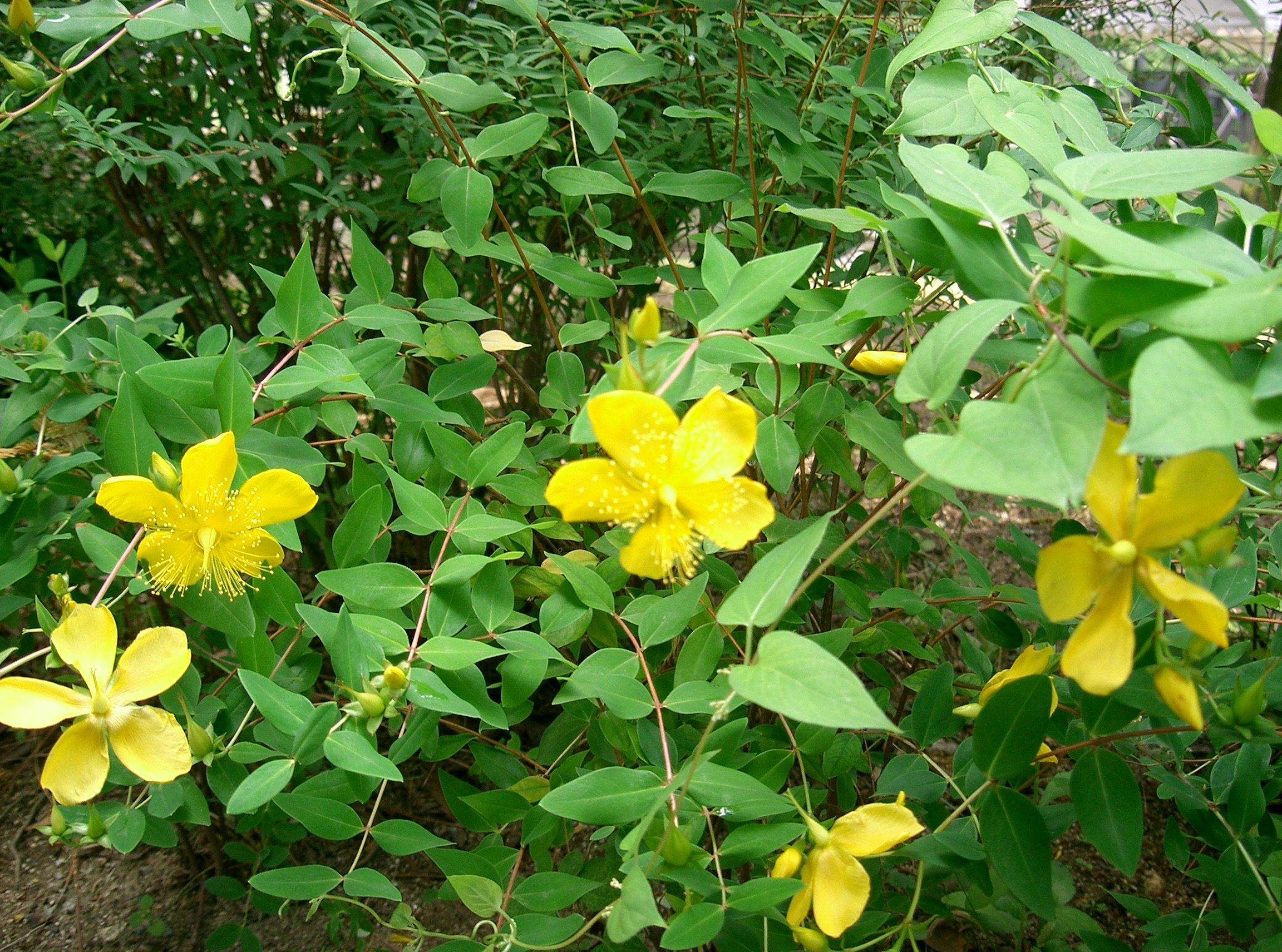 Hypericum monogynum, Osaka-fu, Japan